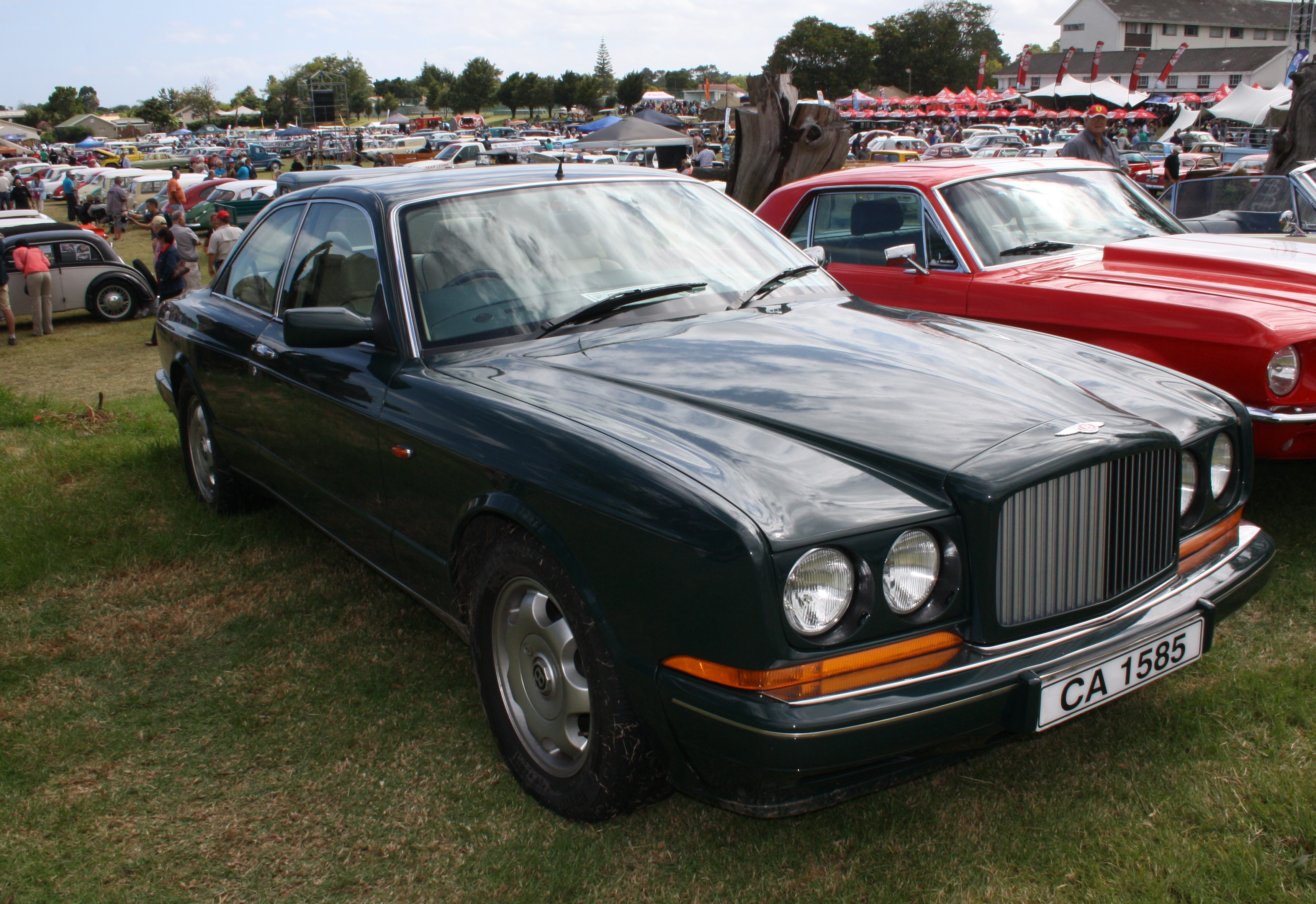 1994 Bentley Turbo Continental